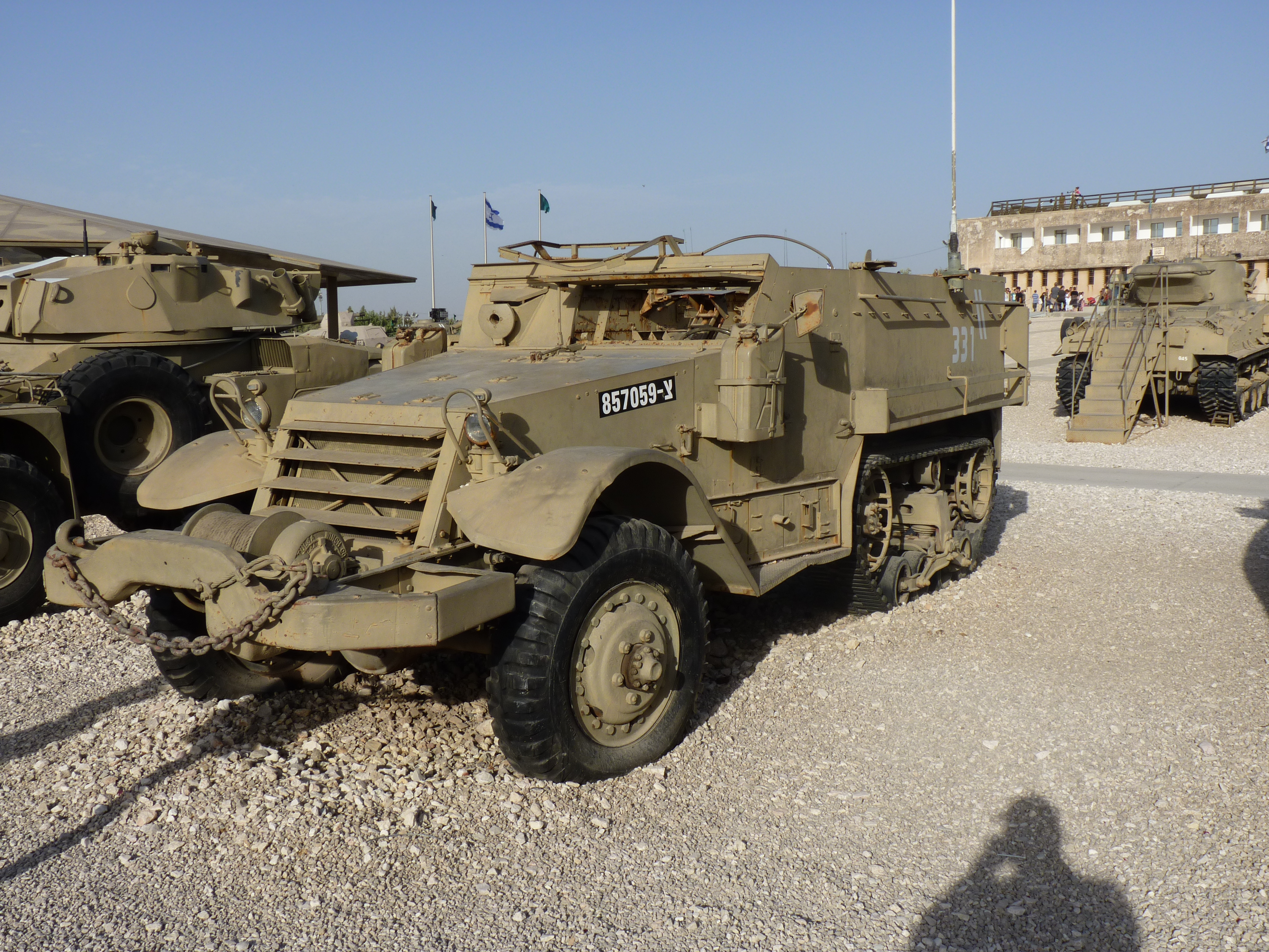 P1100504 Latrun - Armored Corps Museum